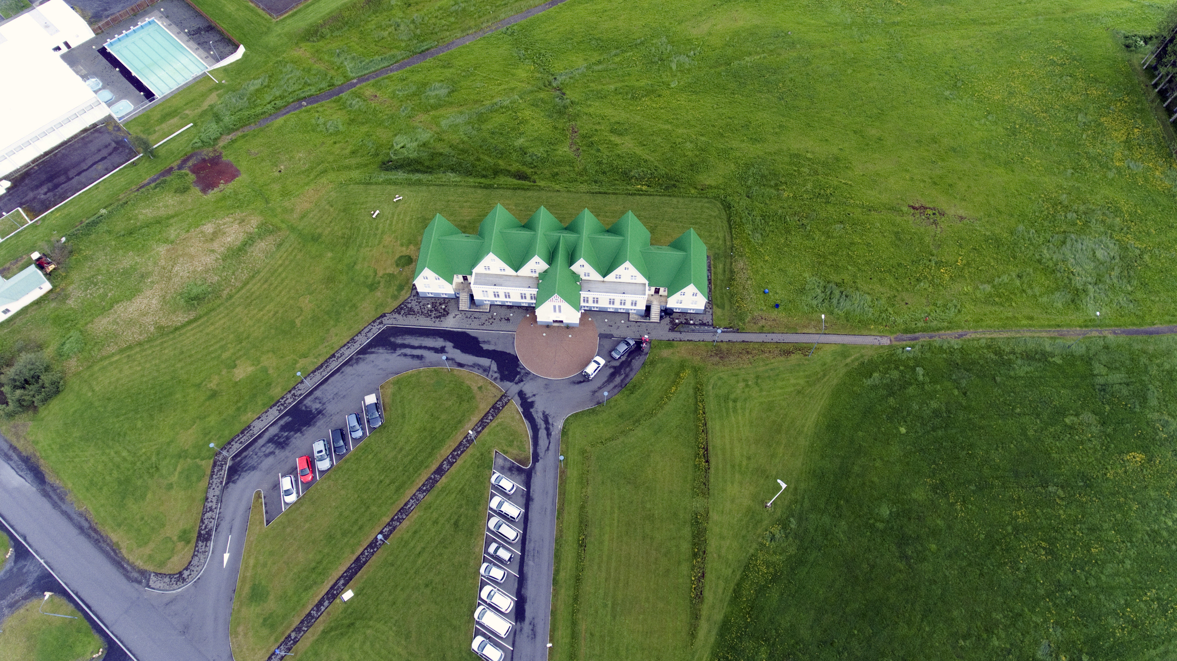 Héraðsskólinn Schoolhouse from the sky